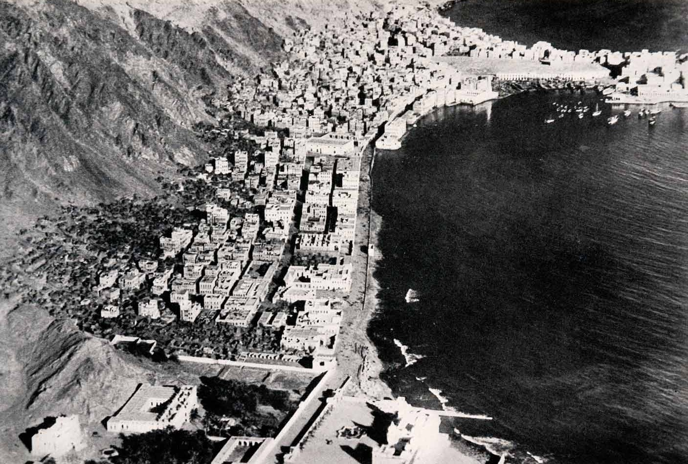 Aerial View of Mukalla on the southern Arabian coast. Mukalla, then part of the Aden Protectorate, is now part of Yemen. Cropped from a 1932 print.